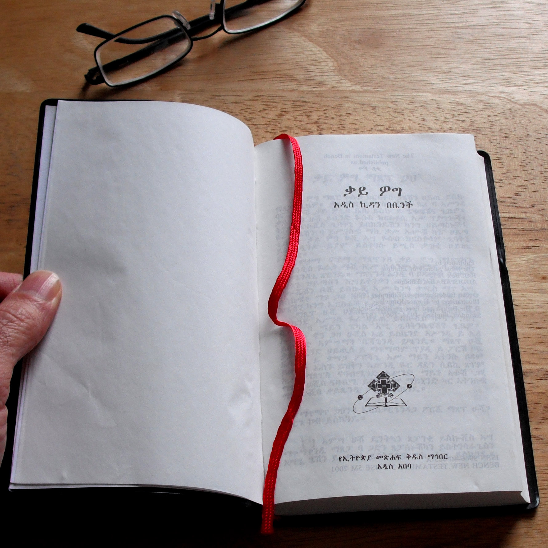 Image of the Bench language New Testament, the only published printed work in the Bench language of Ethiopia at this time.